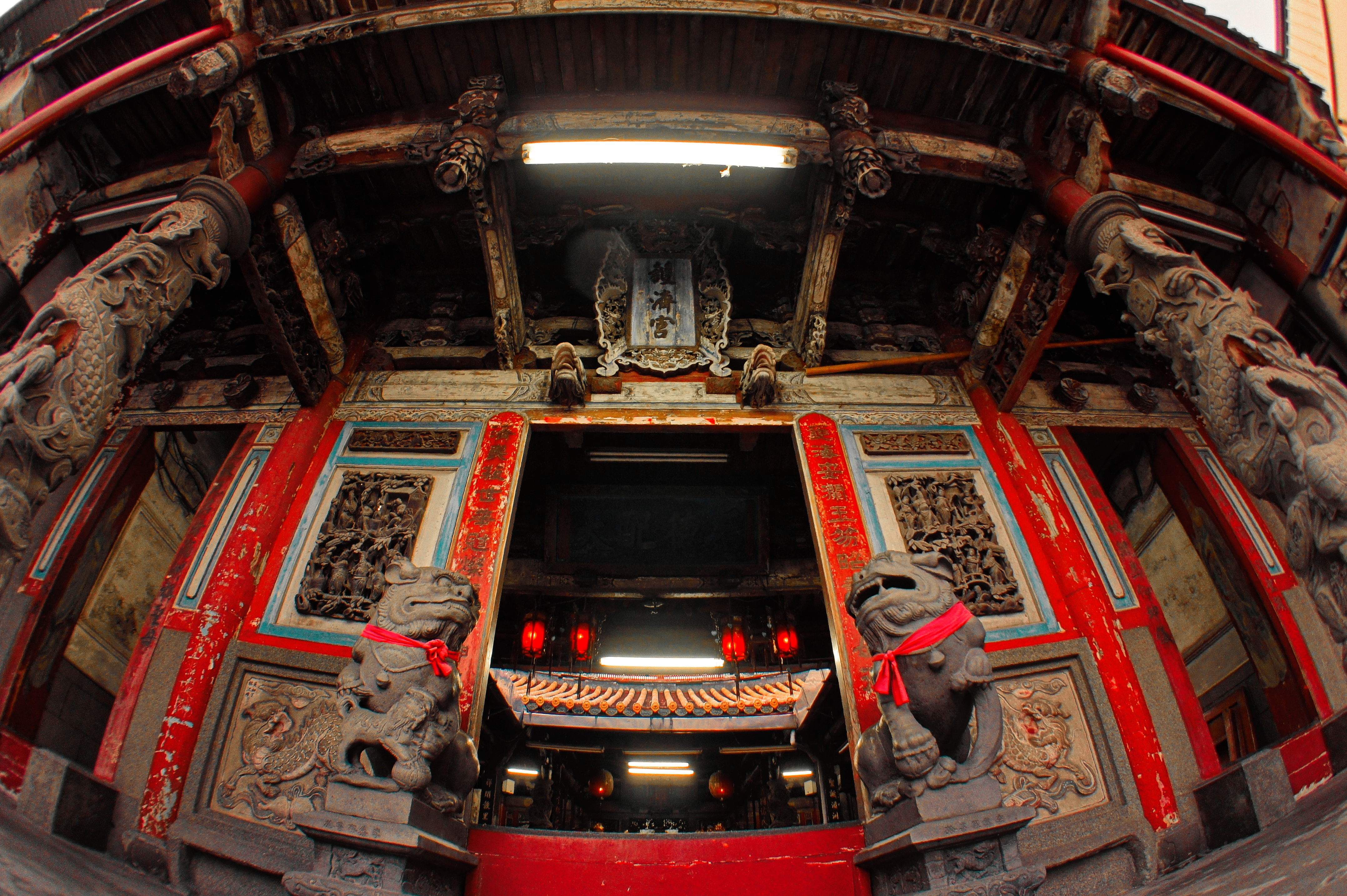 Matsu Temple, Madou District, Tainan City, Taiwan.